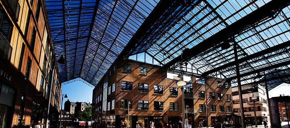 Spinderiet, a shopping centre based in a former cotton mill in the Valby district of Copenhagen, Denmark